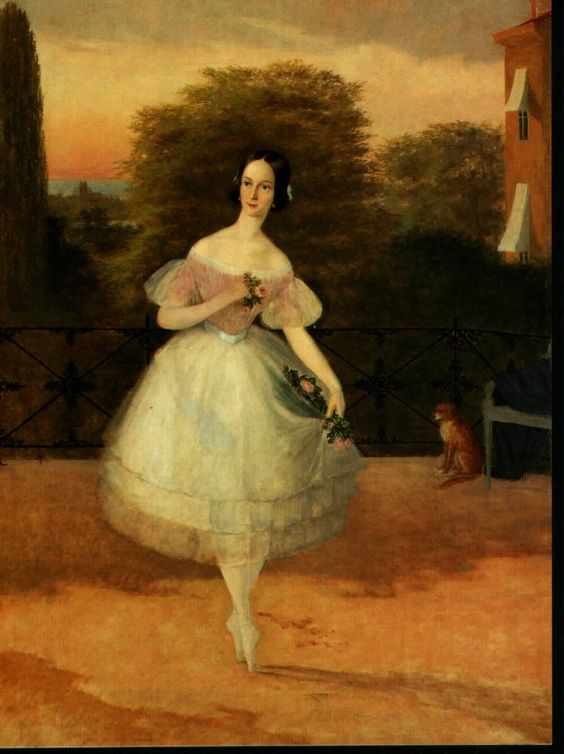 1840 drawing by Edvard Lehman of Augusta Nielsen in August Bournonville's "Toreadoren".